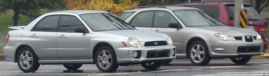 2004-2005 Subaru Impreza sedan & 2006-2007 wagon photographed in Montreal, Quebec, Canada.